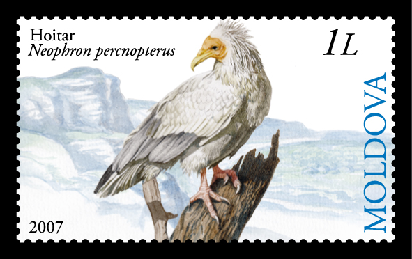 Stamp of Moldova